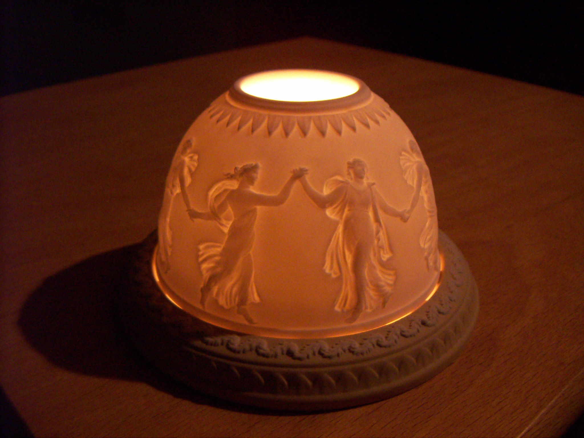 a wedgwood lithophane, it depicts the Horae: The dancing hours, who were the 3 daughters of Zeus and allegories of the seasons.